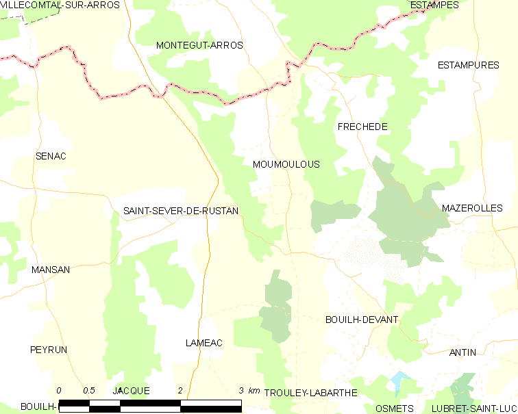 Map of French municipality